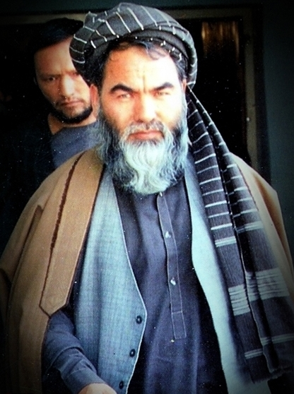 Abdul Ali MazariDari: عبدالعلی مزاری